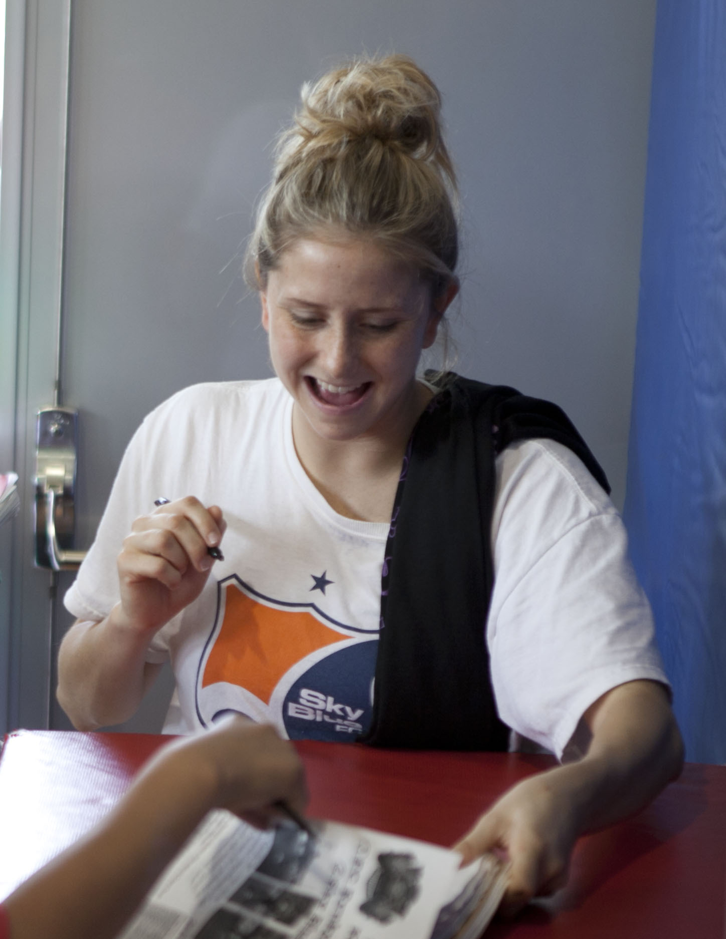 Carolyn M. Blank, a member of Sky Blue Football Club, a women’s professional soccer team, signs autographs for students during a visit here, March 23. The players spoke to students about soccer and life. Blank emphasized to the students to dream big and never give up.